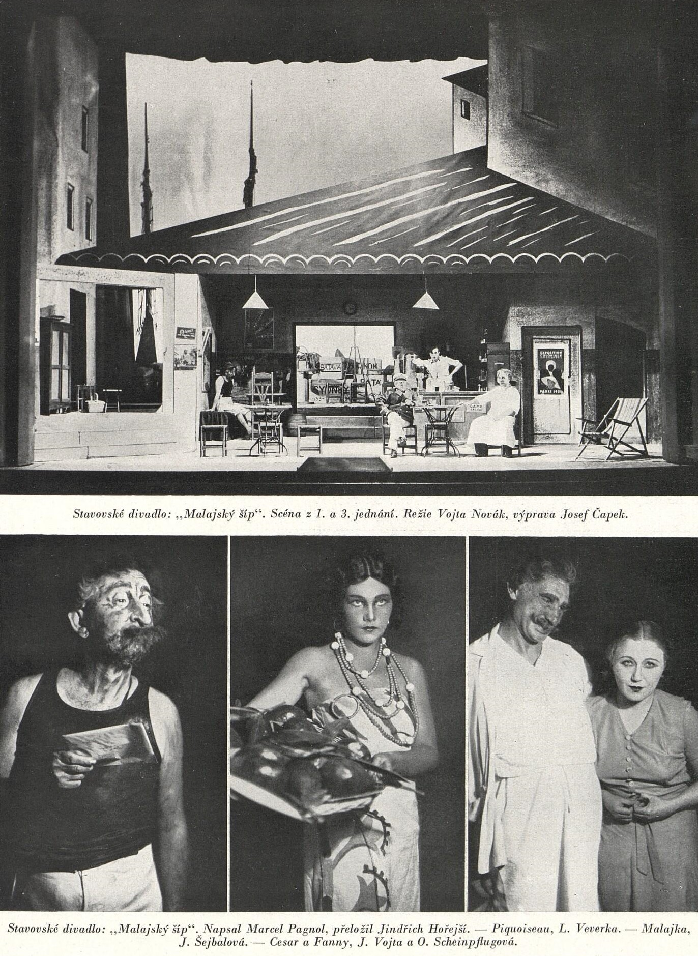 Marcel Pagnol: Marius (Czech title Malajský šíp), Prague, 1931